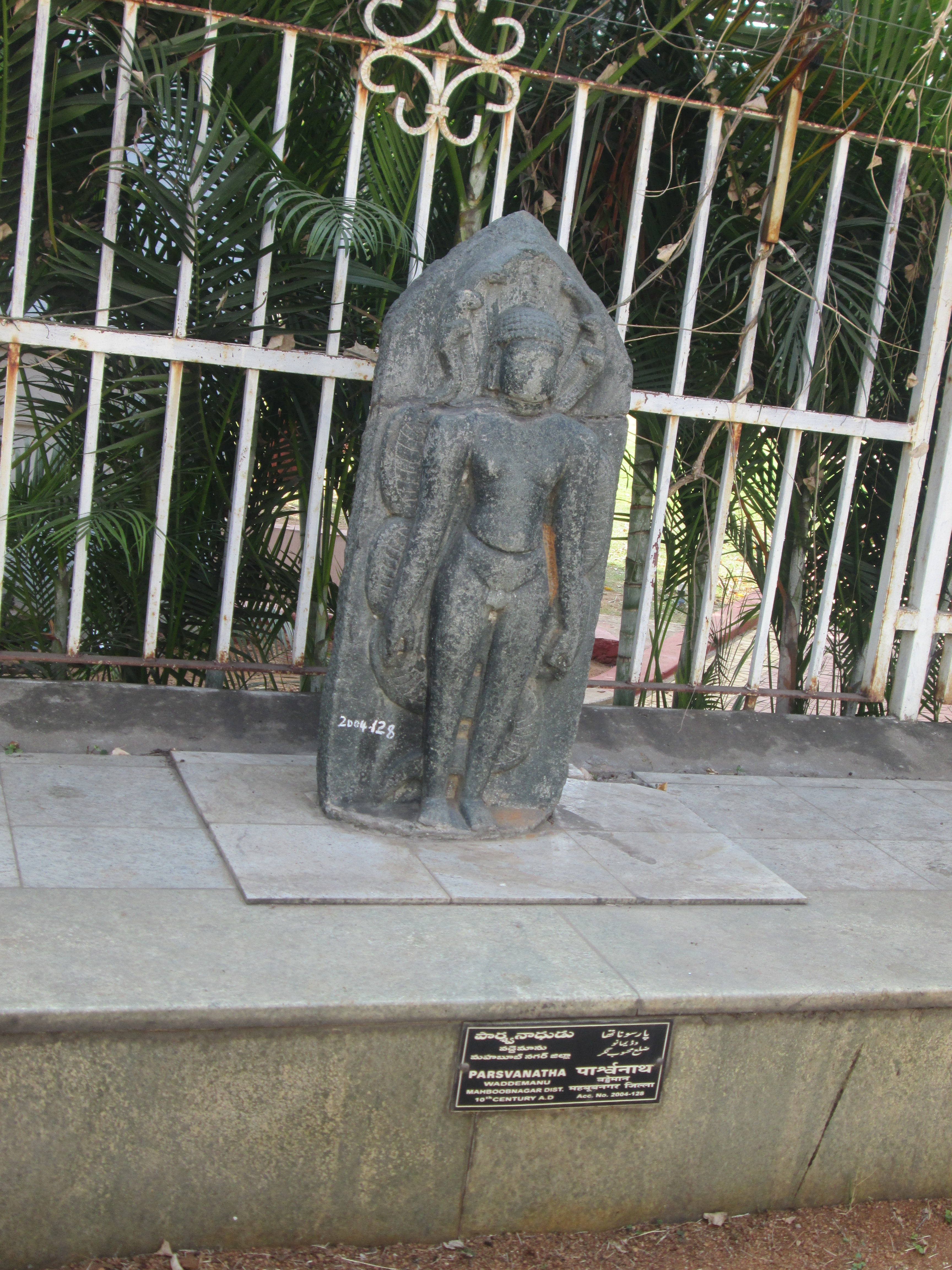 Parshvantha, 10th century